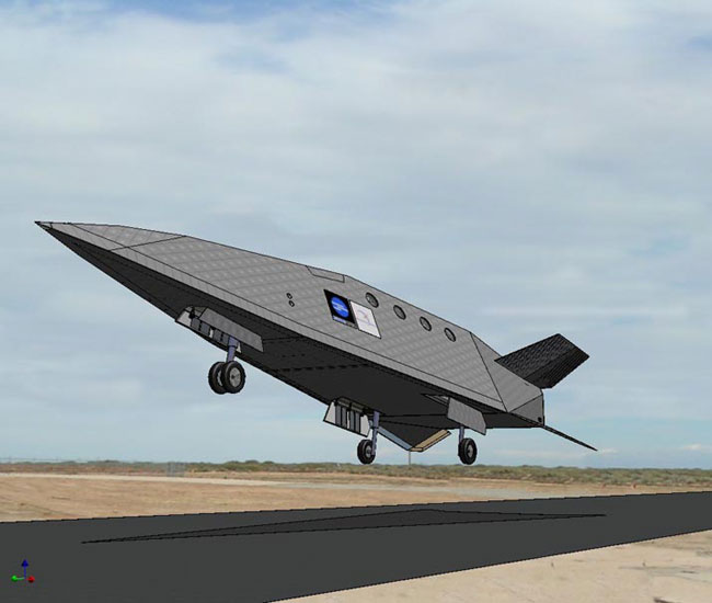 The Sliver Dart spacecraft, as proposed by PlanetSpace